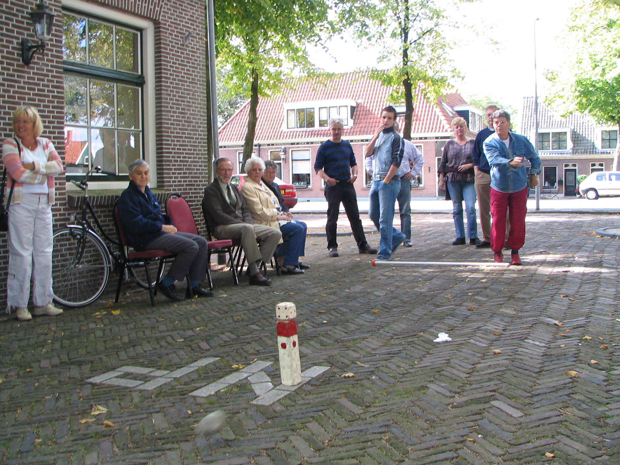 Stone tossing game in Middenbeemster. The object is to knock over the large dice on the pole by hitting it with a stone.